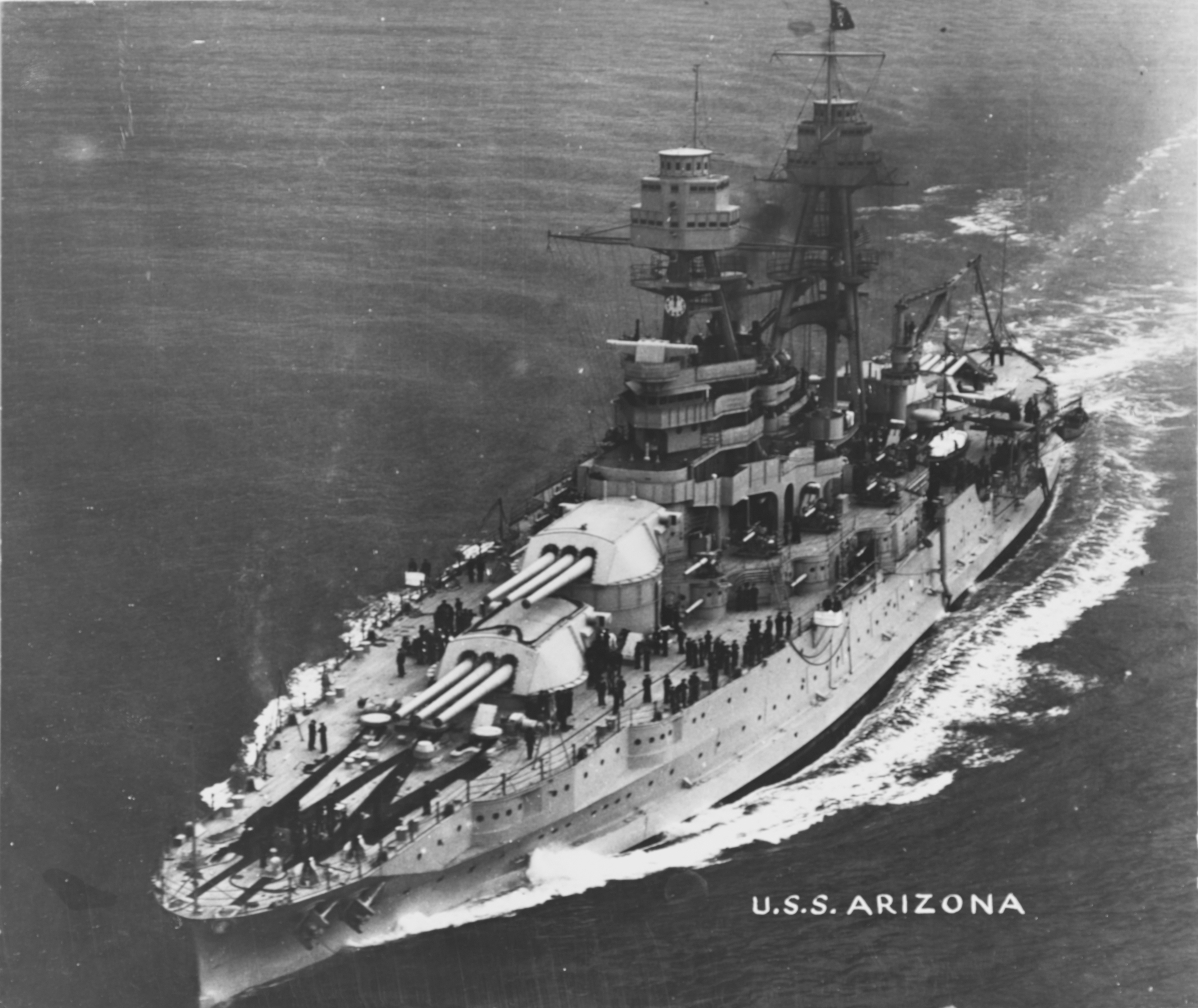 Underway with President Herbert Hoover on board, March 1931. The Presidential Flag is flying from her mainmast peak. U.S. Naval History and Heritage Command Photograph.